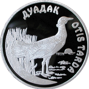 Coin of Kazakhstan